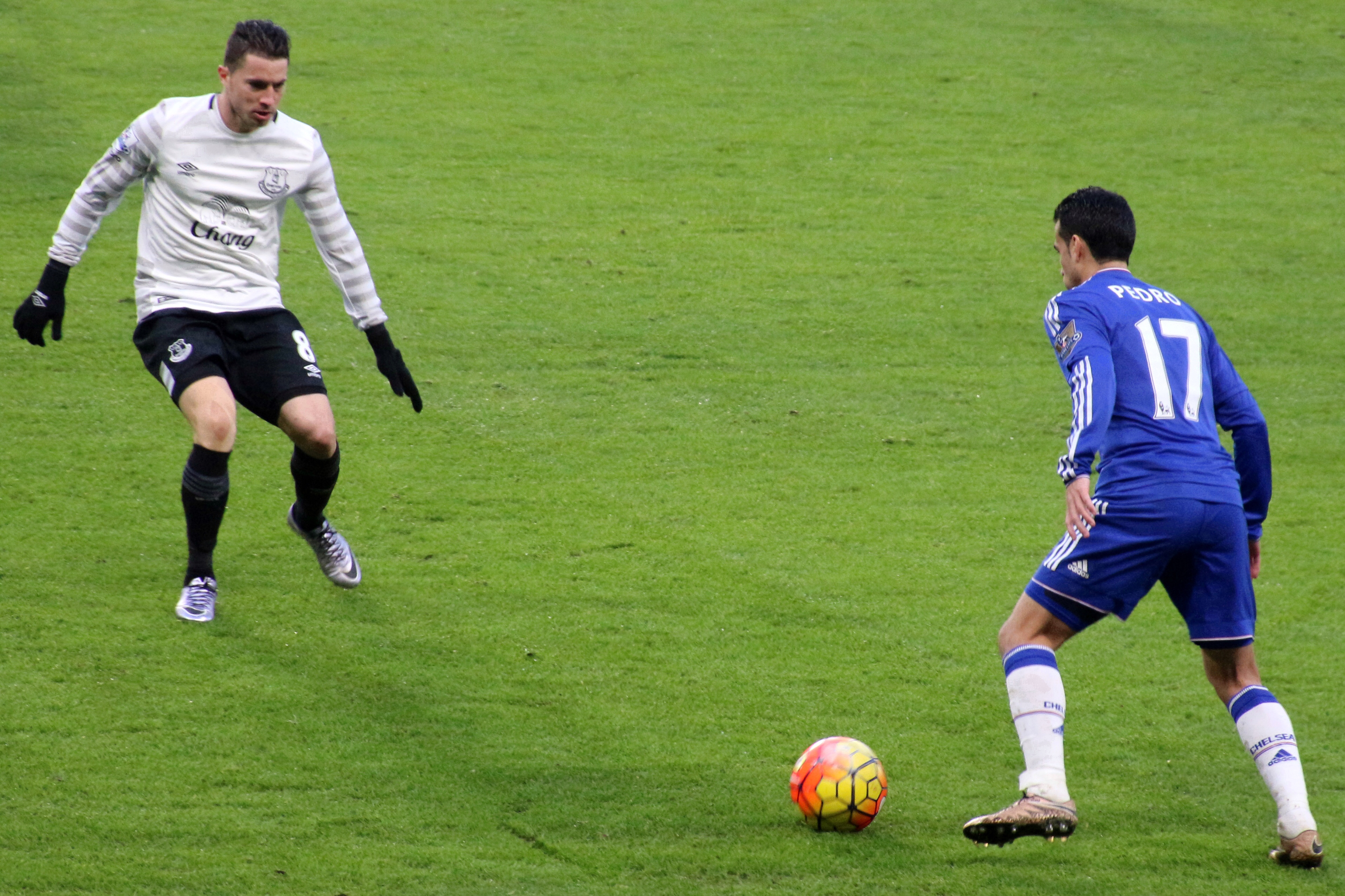 Bryan Oviedo (Everton) and Pedro (Chelsea) during a Premier League match